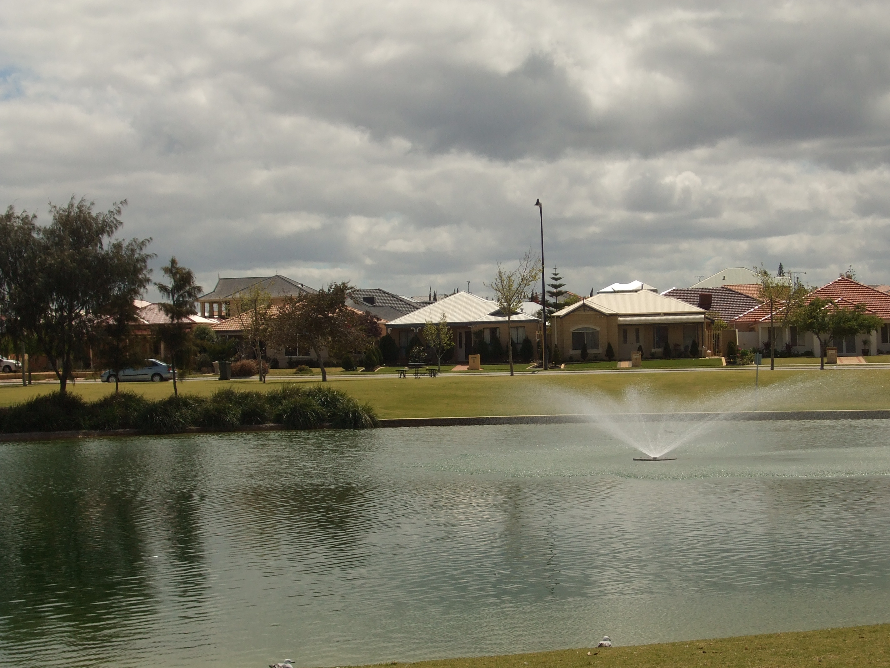 Brampton Park, along Kingsbridge Boulevard, Butler, Western Australia.